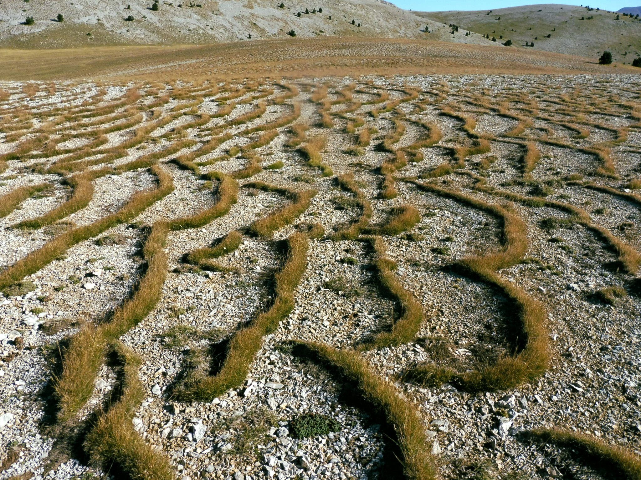 Festuca eskia. In la Bòfia, la Coma i la Pedra (Solsonès - Catalunya). To 2.340 m. altitude